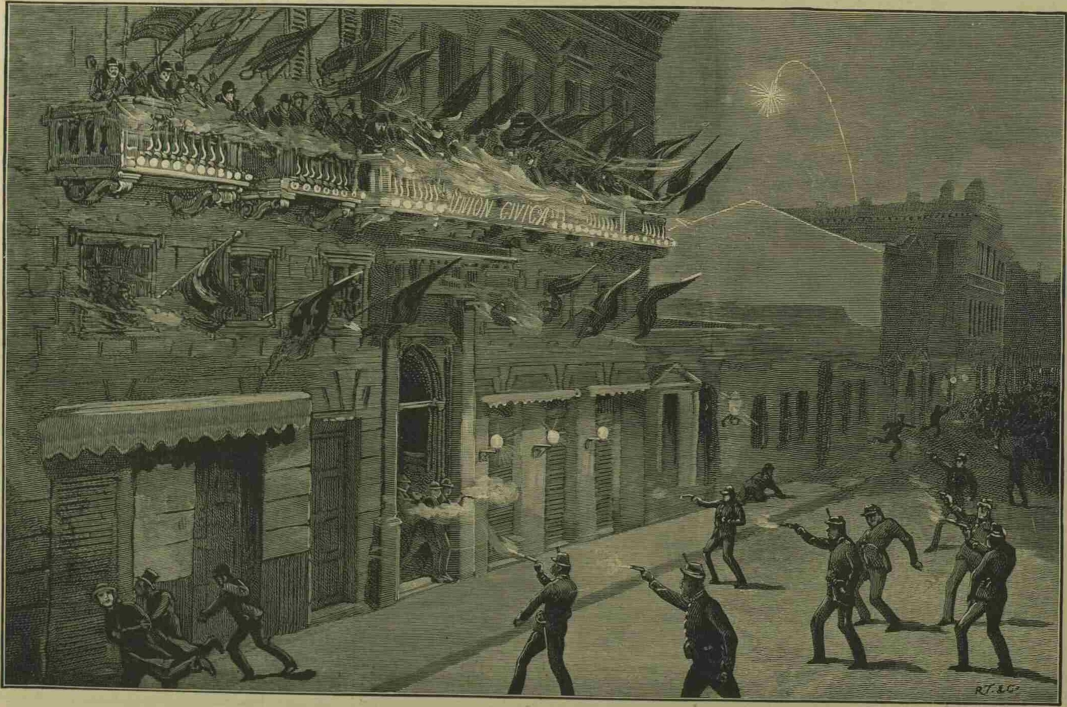 Police shootout at HQ of Unión Cívica, elections, Buenos Aires, 1892.